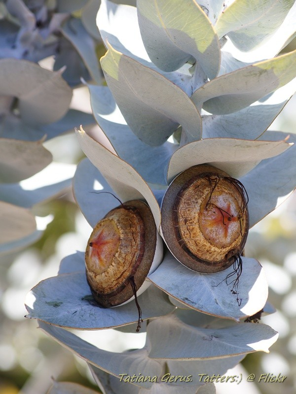 Developing fruits. They are ~3 inch diameter - one of the largest eucalypt flowers.